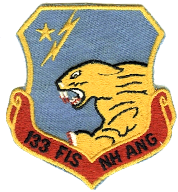 133d Fighter-Interceptor Squadron - Emblem.